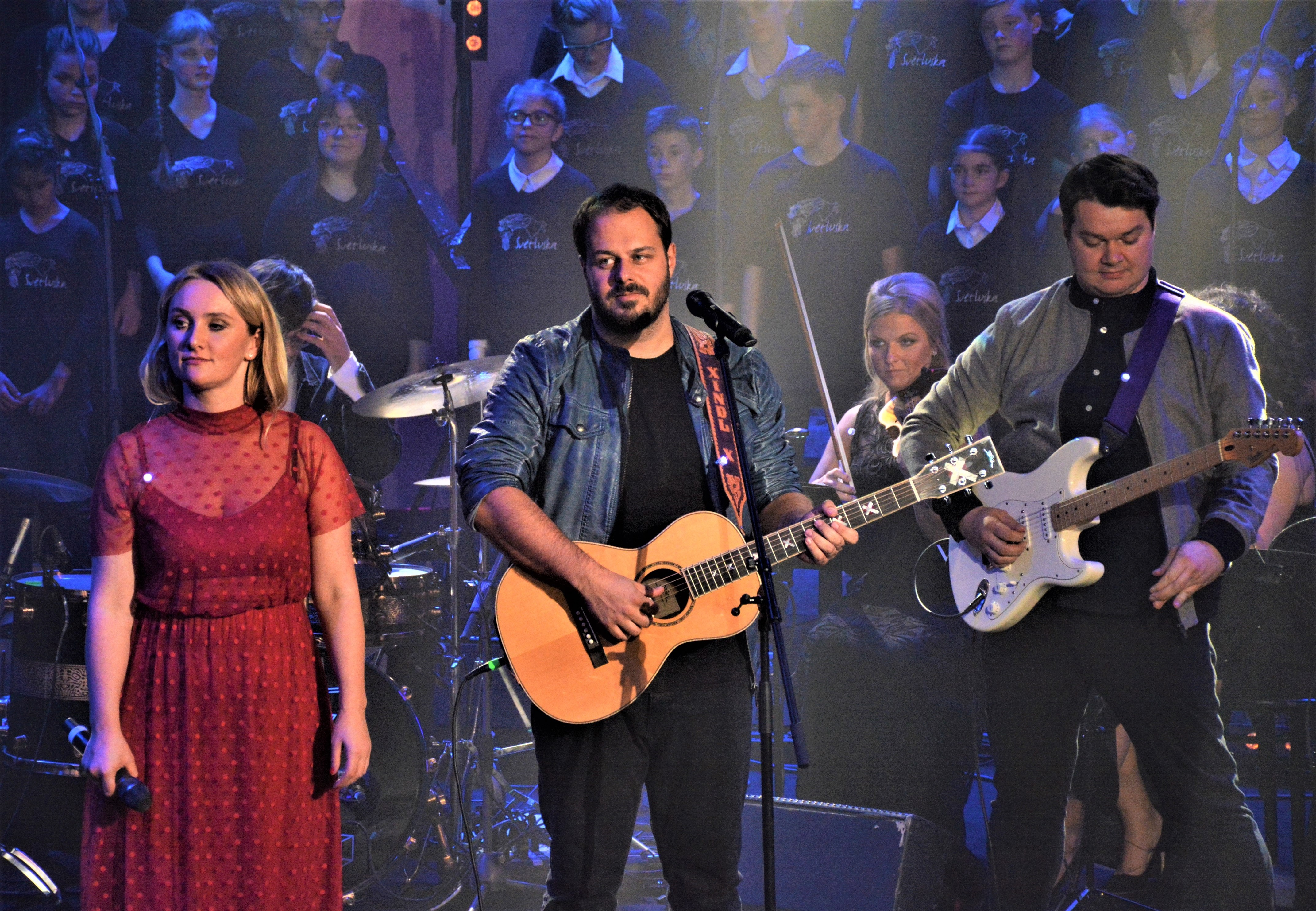 Xindl X, Czech vocalist (in the middle)